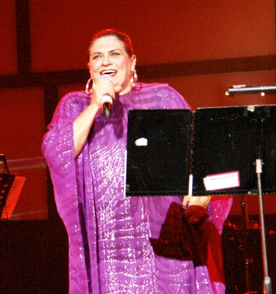 Soledad Bravo performance